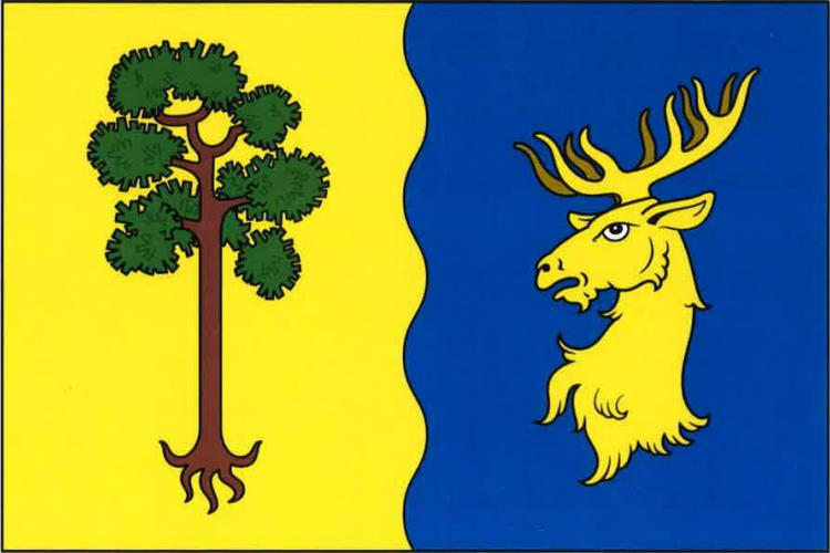 vlajka obce Rasošky